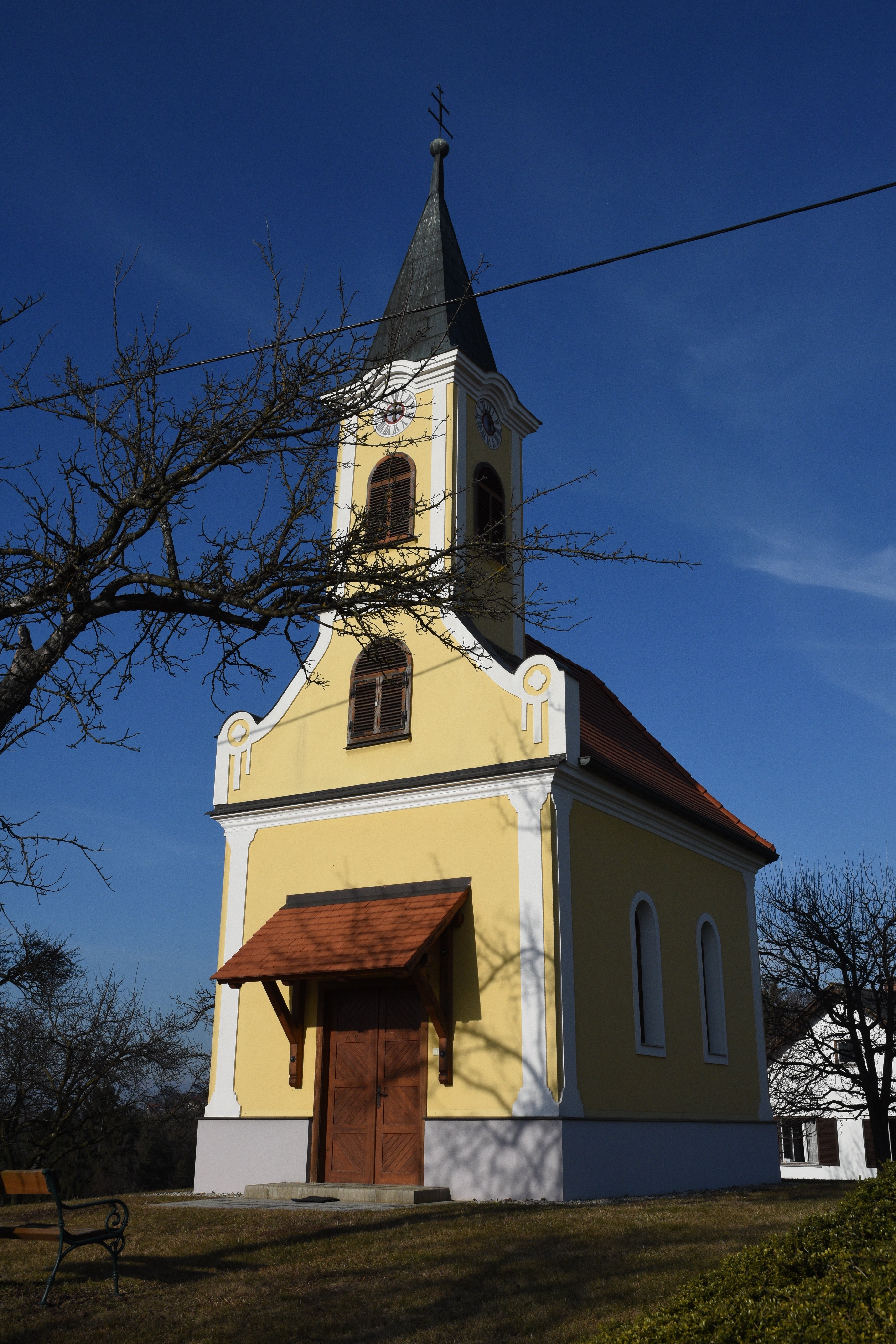 Chapel Haller